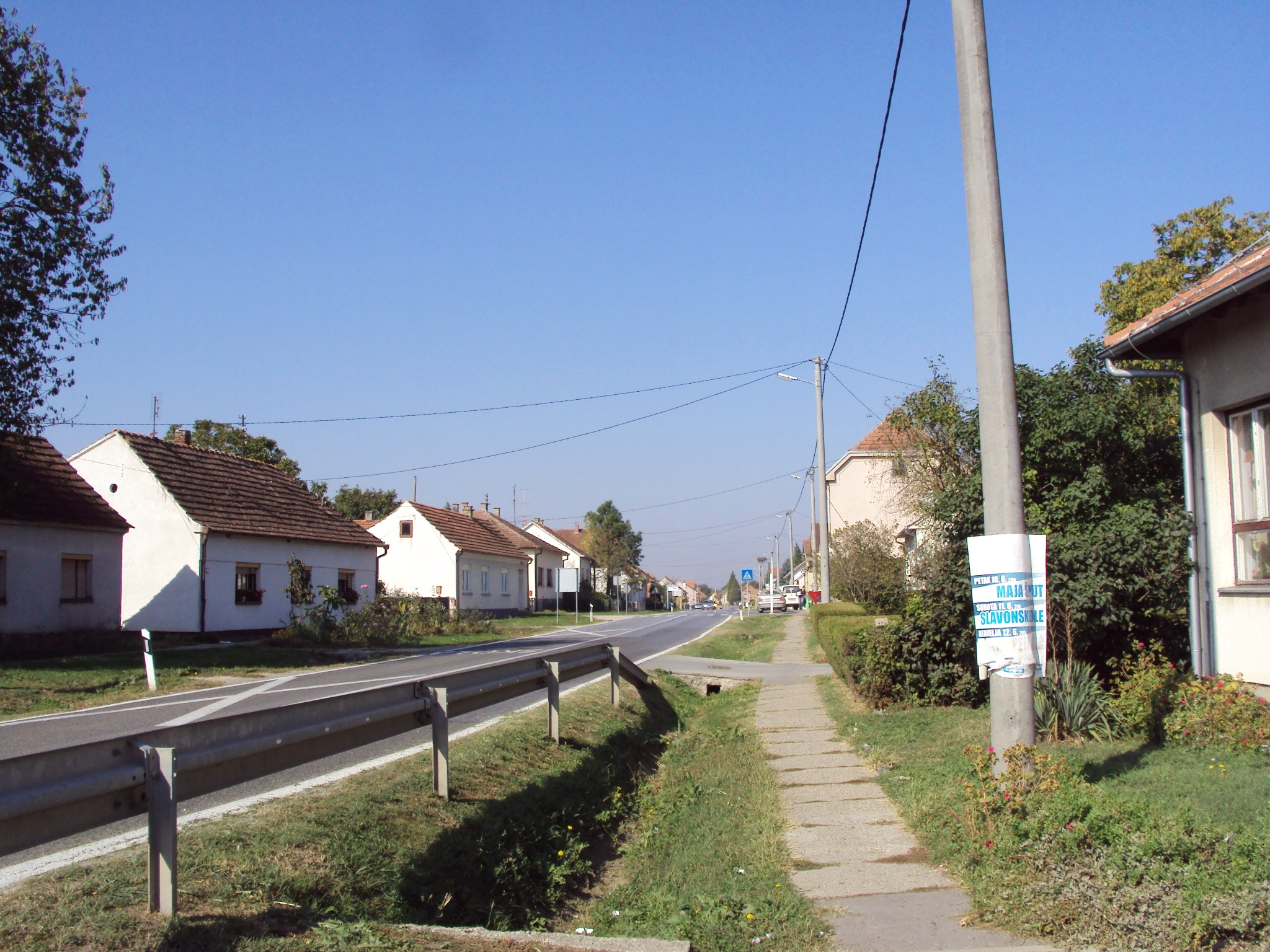 Village of Bulinac, Croatia